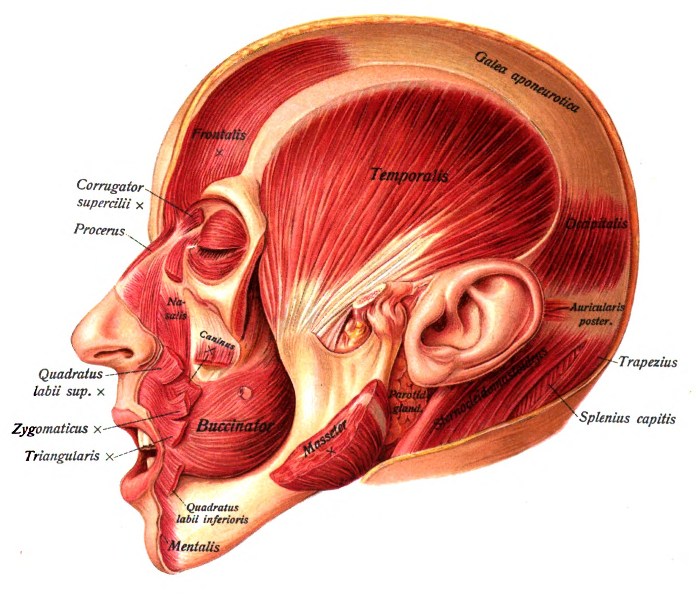 An anatomical illustration from the 1909 American edition of Sobotta's Atlas and Text-book of Human Anatomy with English terminology